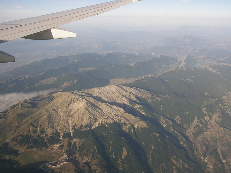 Aerial photographs of Italy 2009